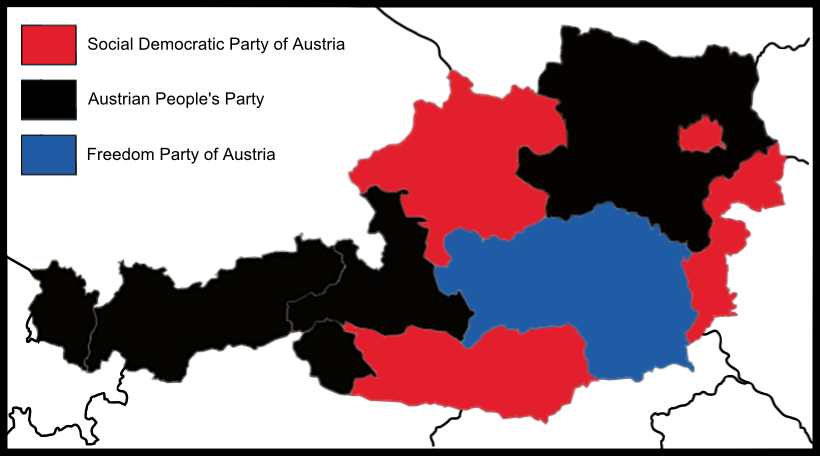 Map, showing the Results of the 2013 Legislative(Parliamentary) Elections in Austria in English language. Whole Creation & Work